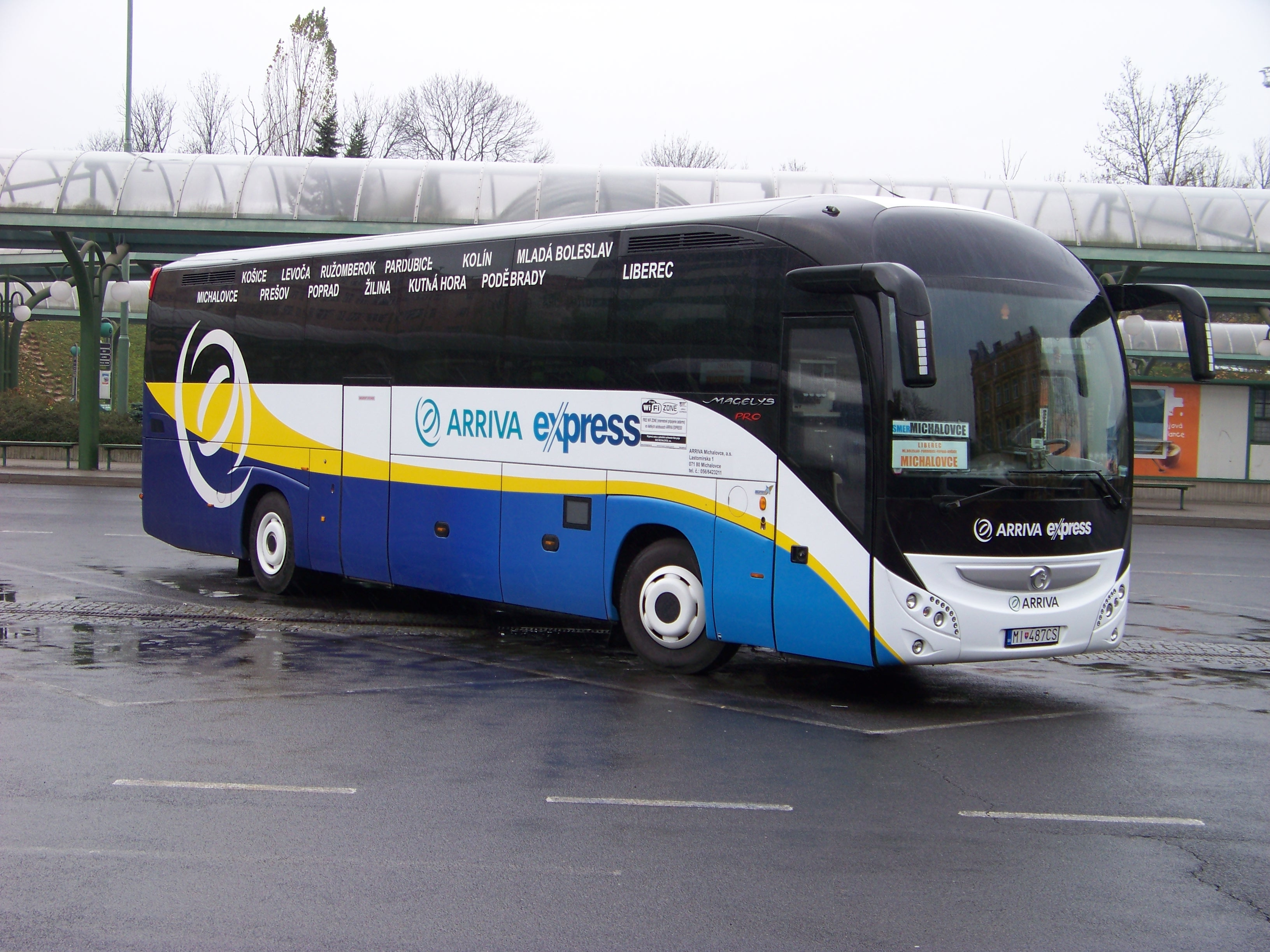 Liberec III-Jeřáb, Liberec District, Liberec Region, Czech Republic. A bus station, a bus Irisbus Magelys of Arriva Michalovce.